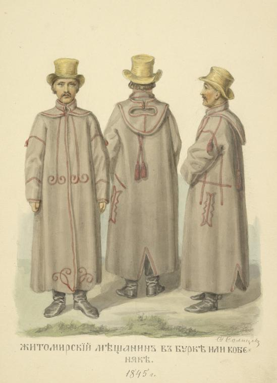 A middle-class bourgeois man from Zhitomir, wearing a felt cloak also called a 'kobeniak' (a coat made of wool and so wide, that it could worn over furs). 1845.